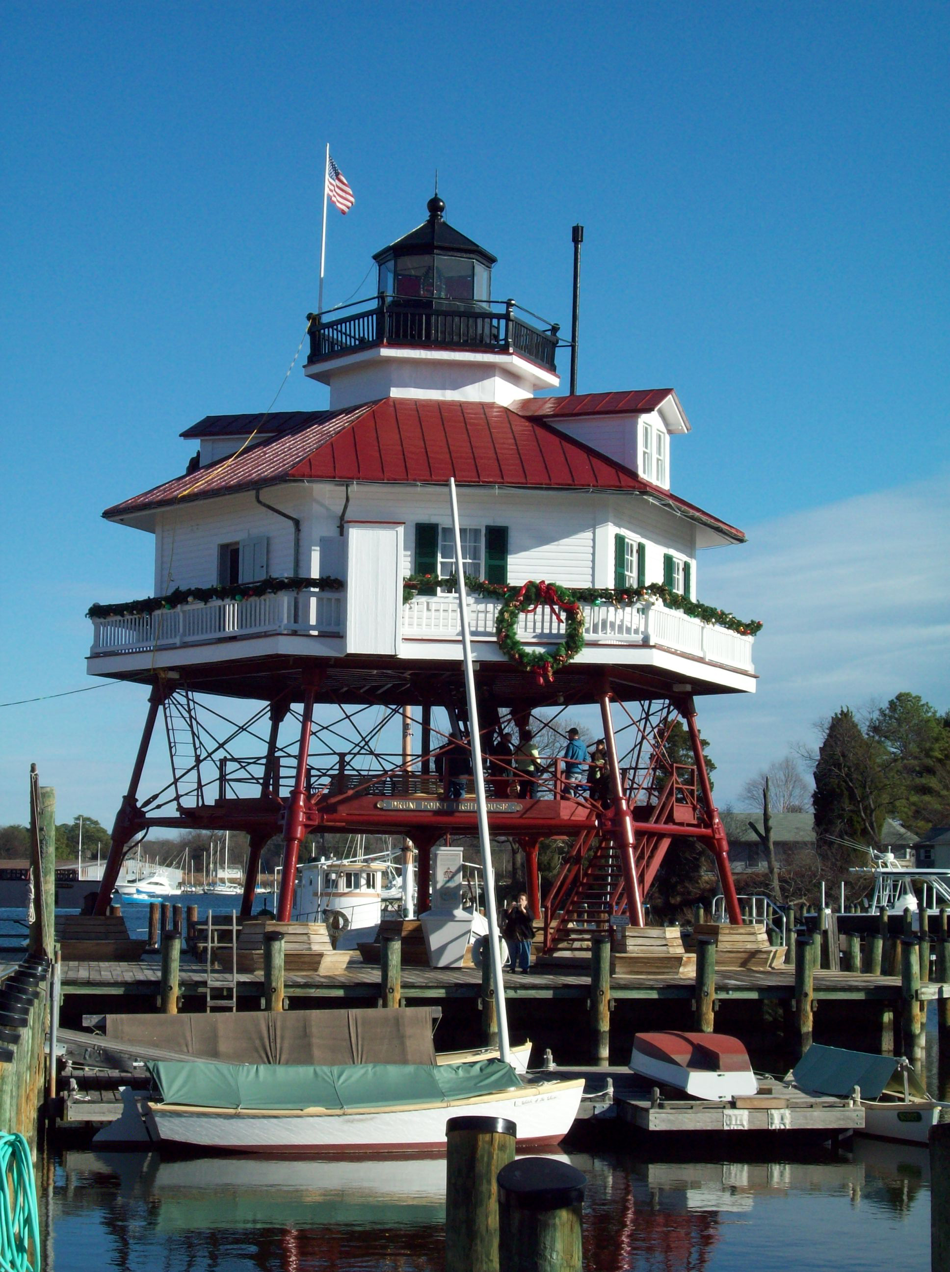 Drum Point Light, Solomons, Maryland, December 2008